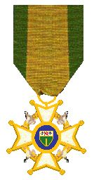 Legion of Merit Officer Rhodesia